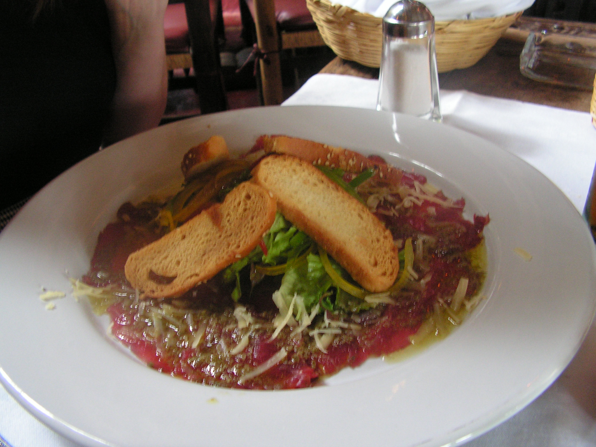 Flauta - Mexican appetizer - corn tortillas with meat picture taken with an Konica Minolta Dimage Z10